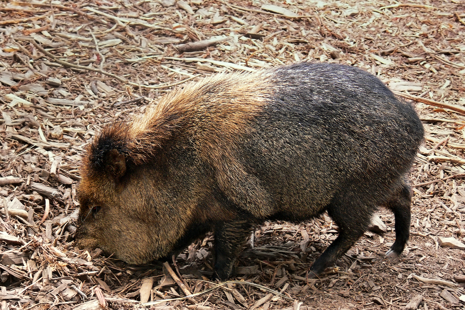 A Collared Peccary of the family Tayassuidae